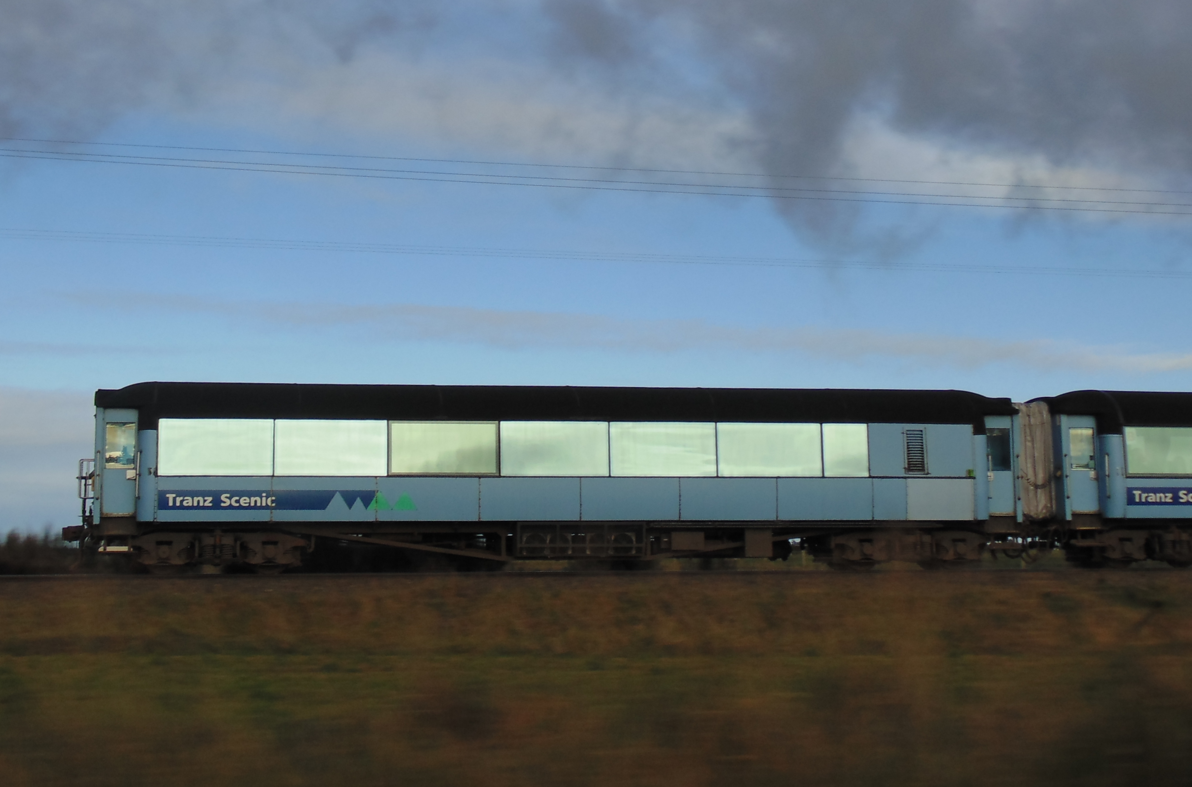 TrainboyMBH